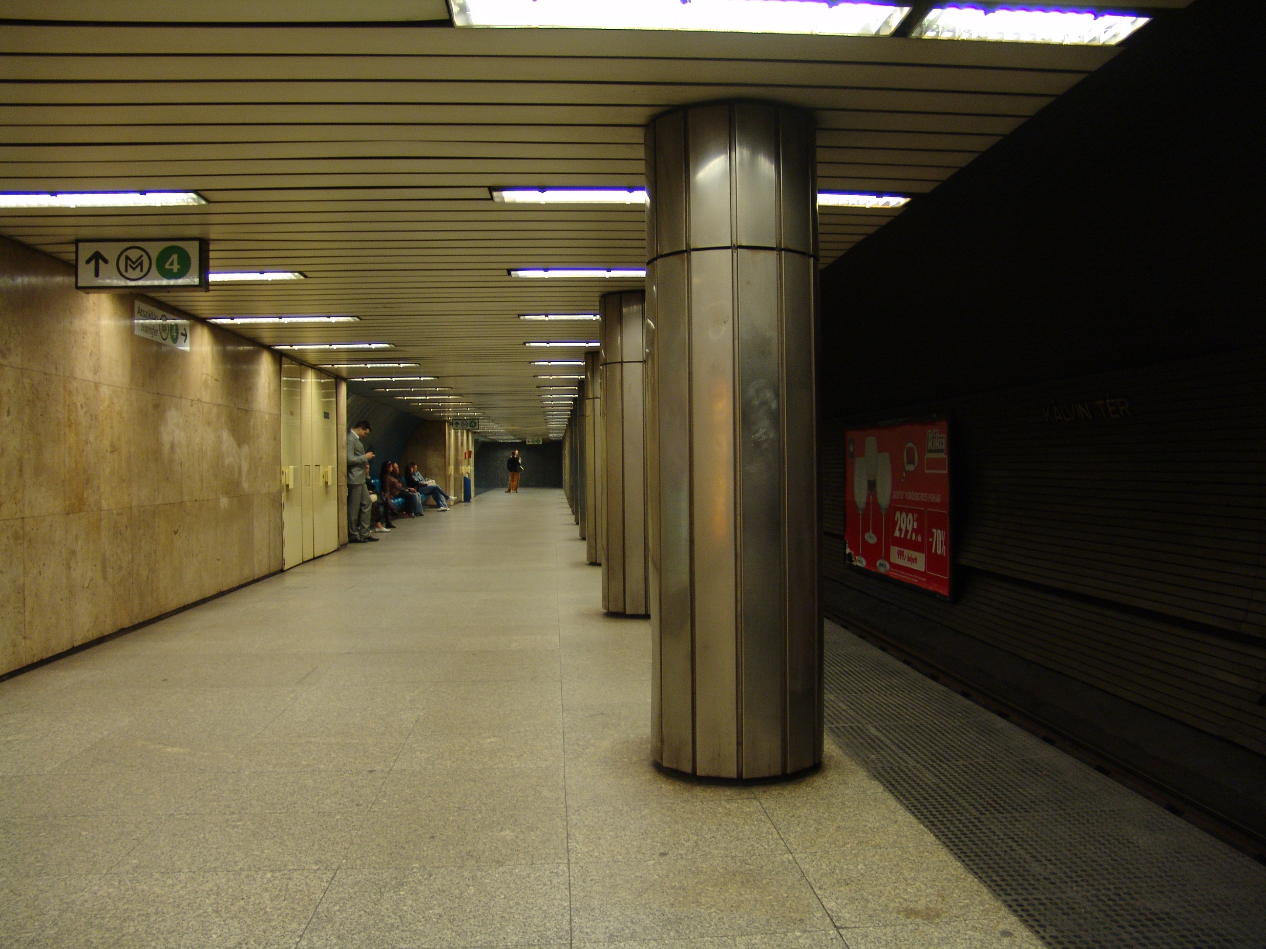 Line 3 (Budapest Metro), Kálvin tér station